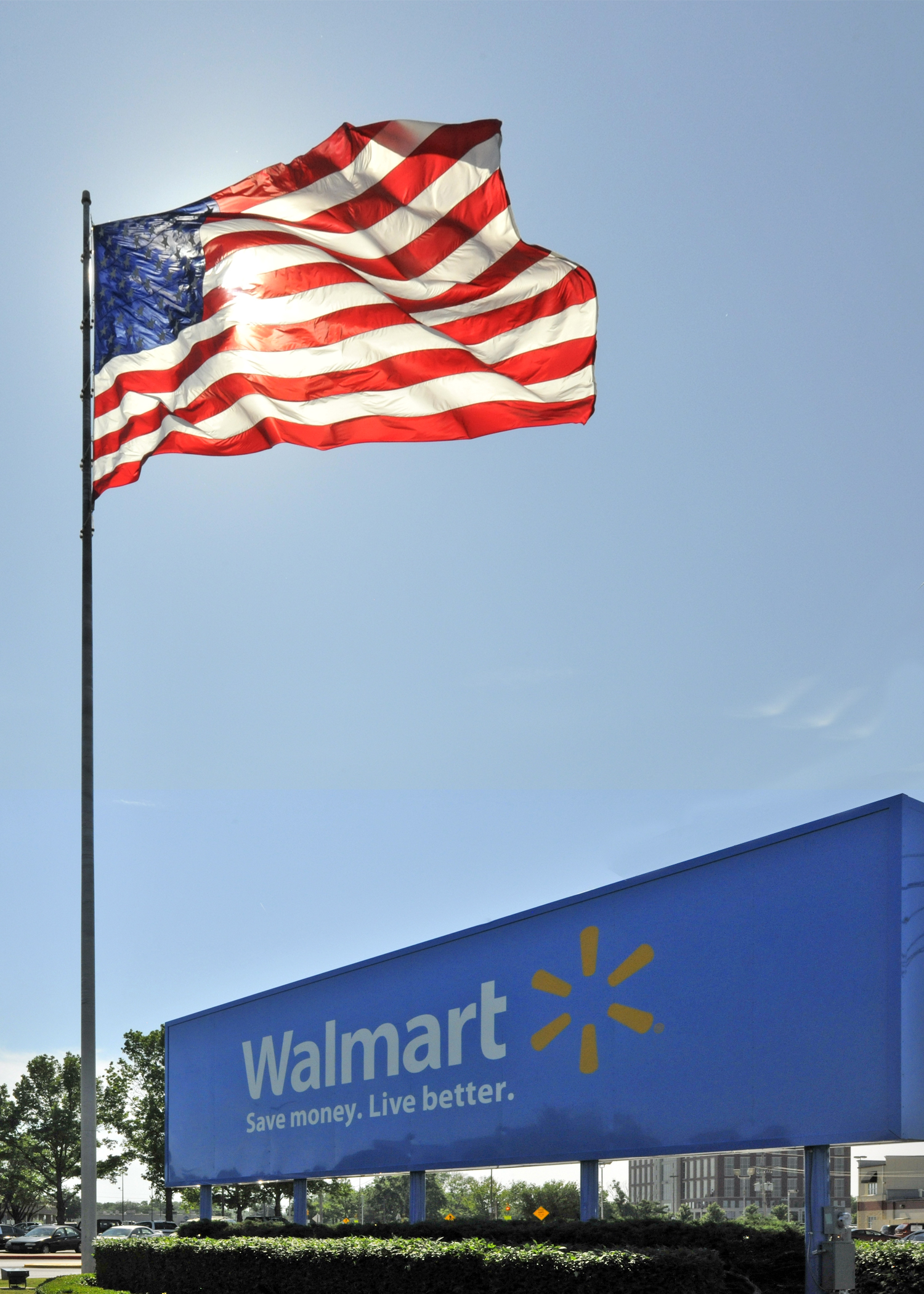 The Wal-Mart Home Office sign in Bentonville, Arkansas